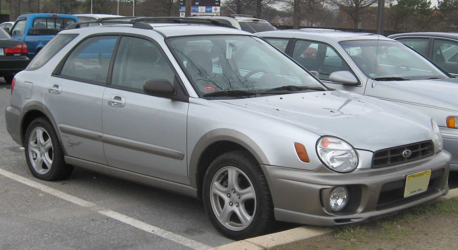 2002-2003 Subaru Outback Sport photographed in College Park, Maryland, USA.